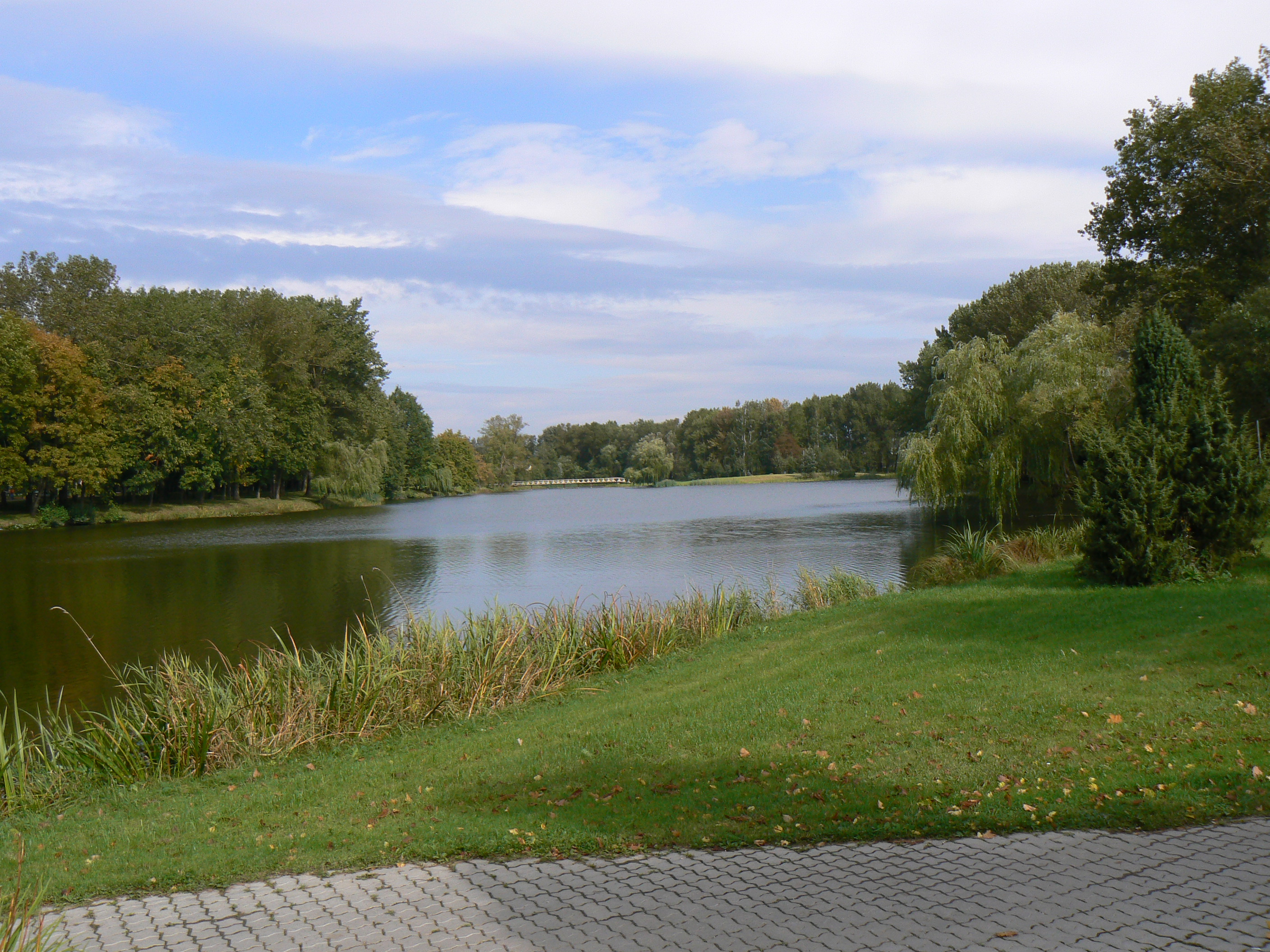 A pond in park in Šakiai